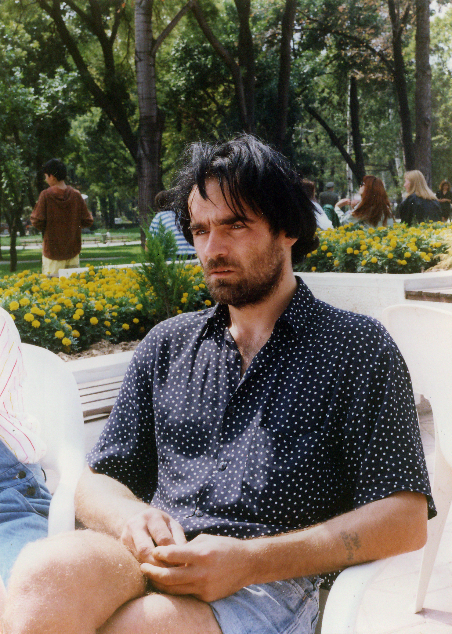 Slobodan Ćustić, Serbian actor, Film festival in Niš (Serbia), late 90s